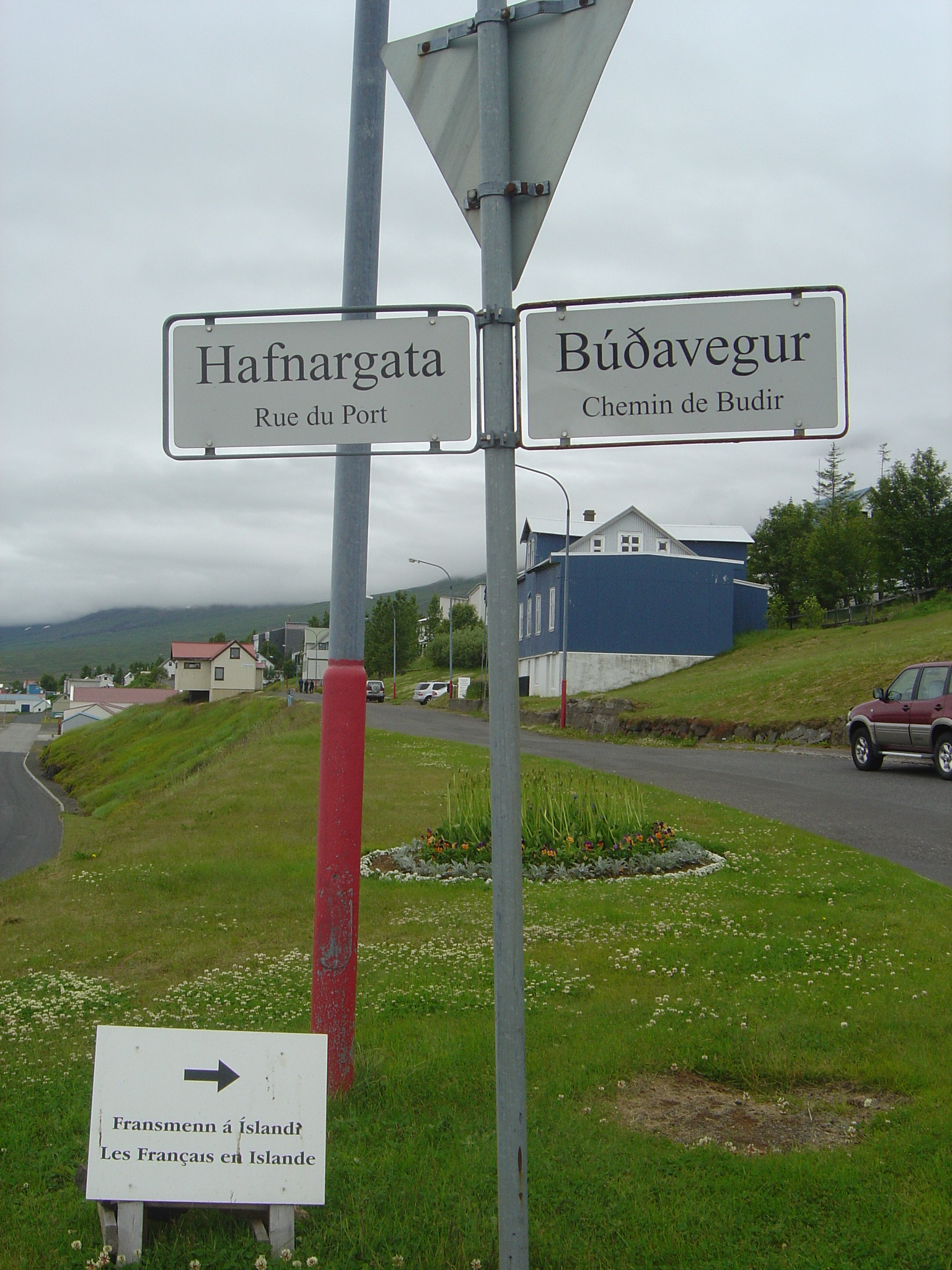 Bilingual road sign